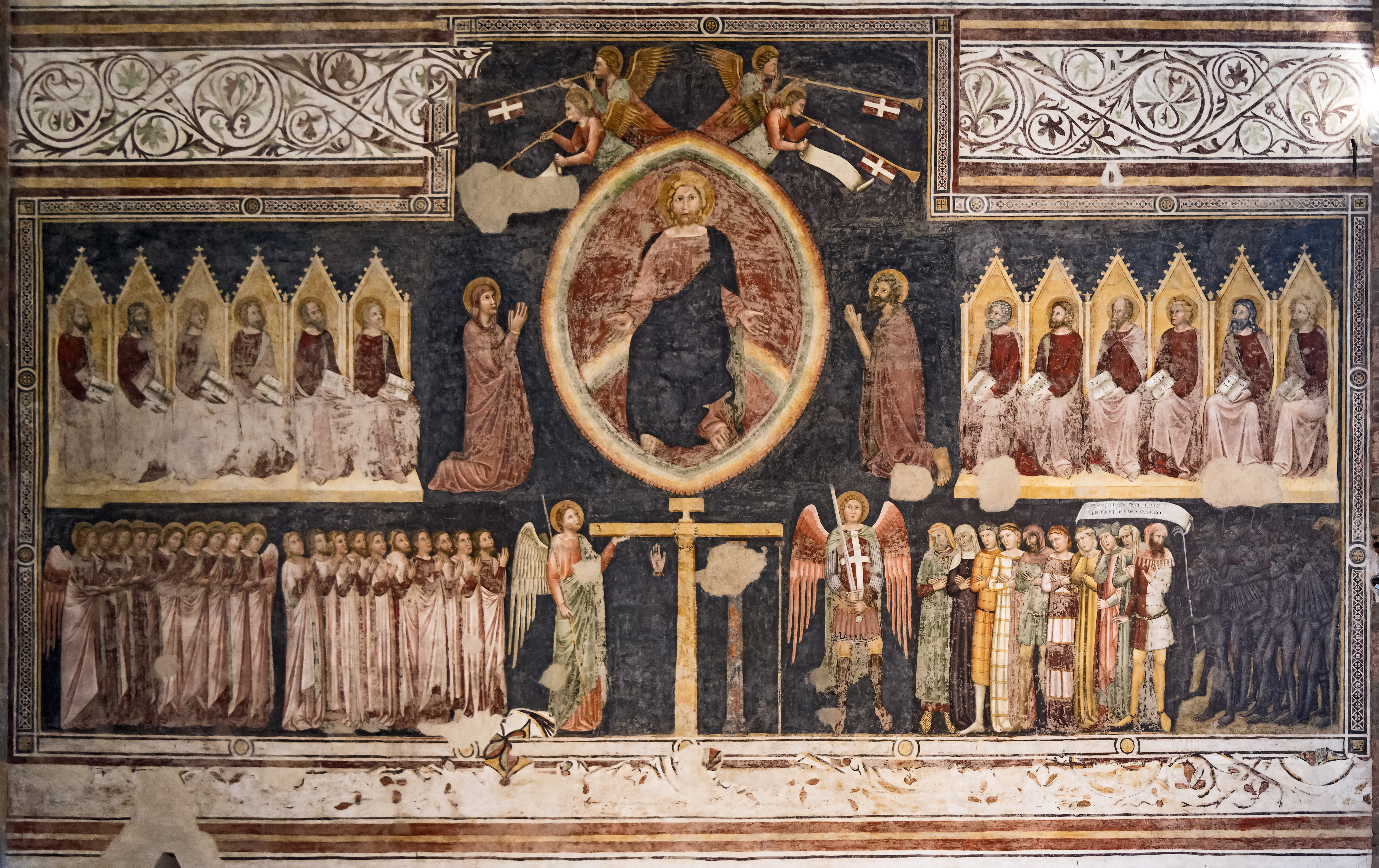 Basilica Santa Anastasia. The choir - On the right wall a fresco Judgement Day by Turone di Maxio around 1360.